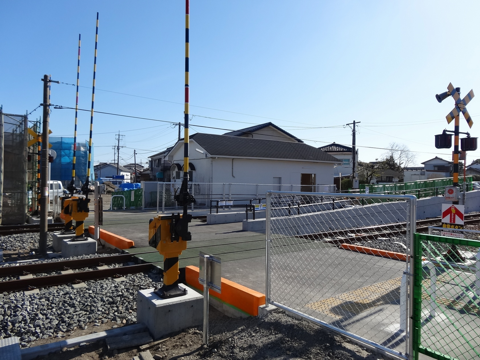 JR Nichinan Line Kibana Station West Gate (Miyazaki City, Japan)